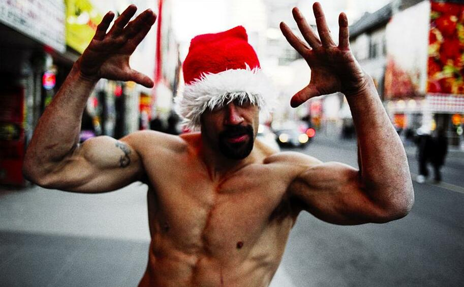 David Zancai performing his Zanta character in Toronto, Ontario, Canada